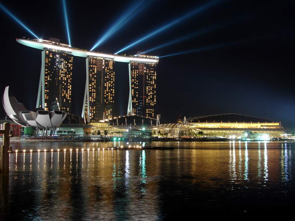 At the opening ceremony of the Youth Olympic Games 2010